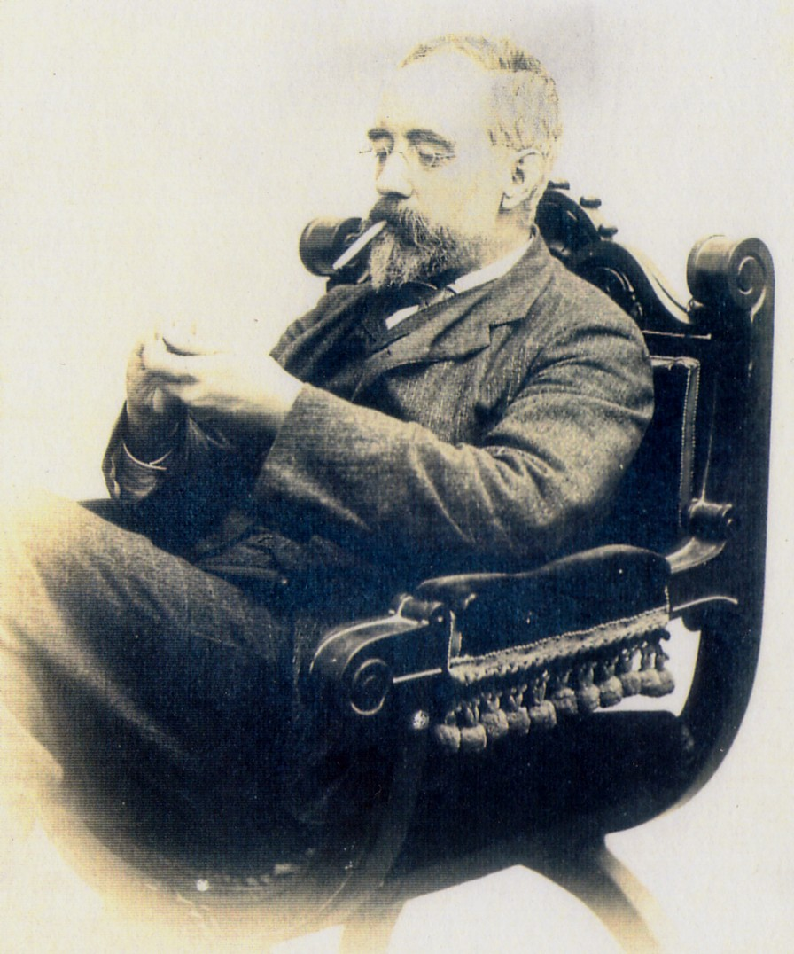 Angel Garcia Cardona